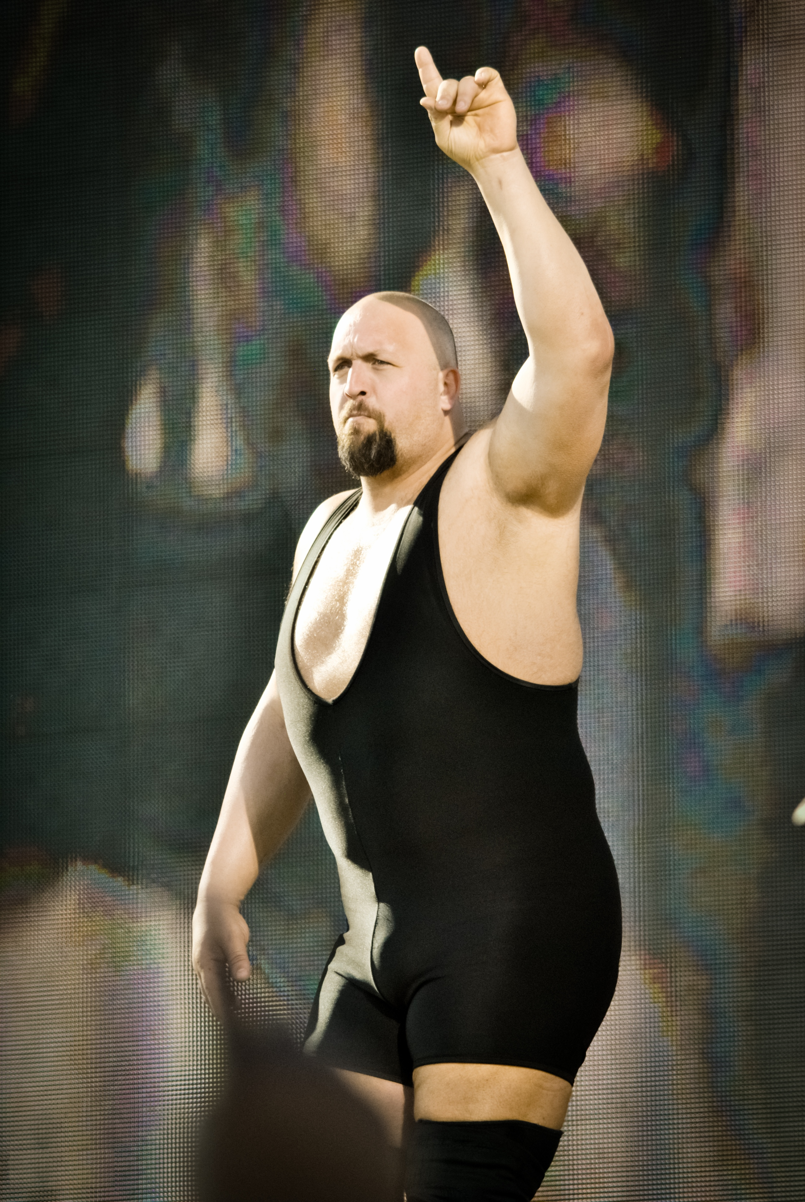 The Big Show at WWE's Tribute to the Troops show in Fort Hood, Texas, on December 11, 2010.